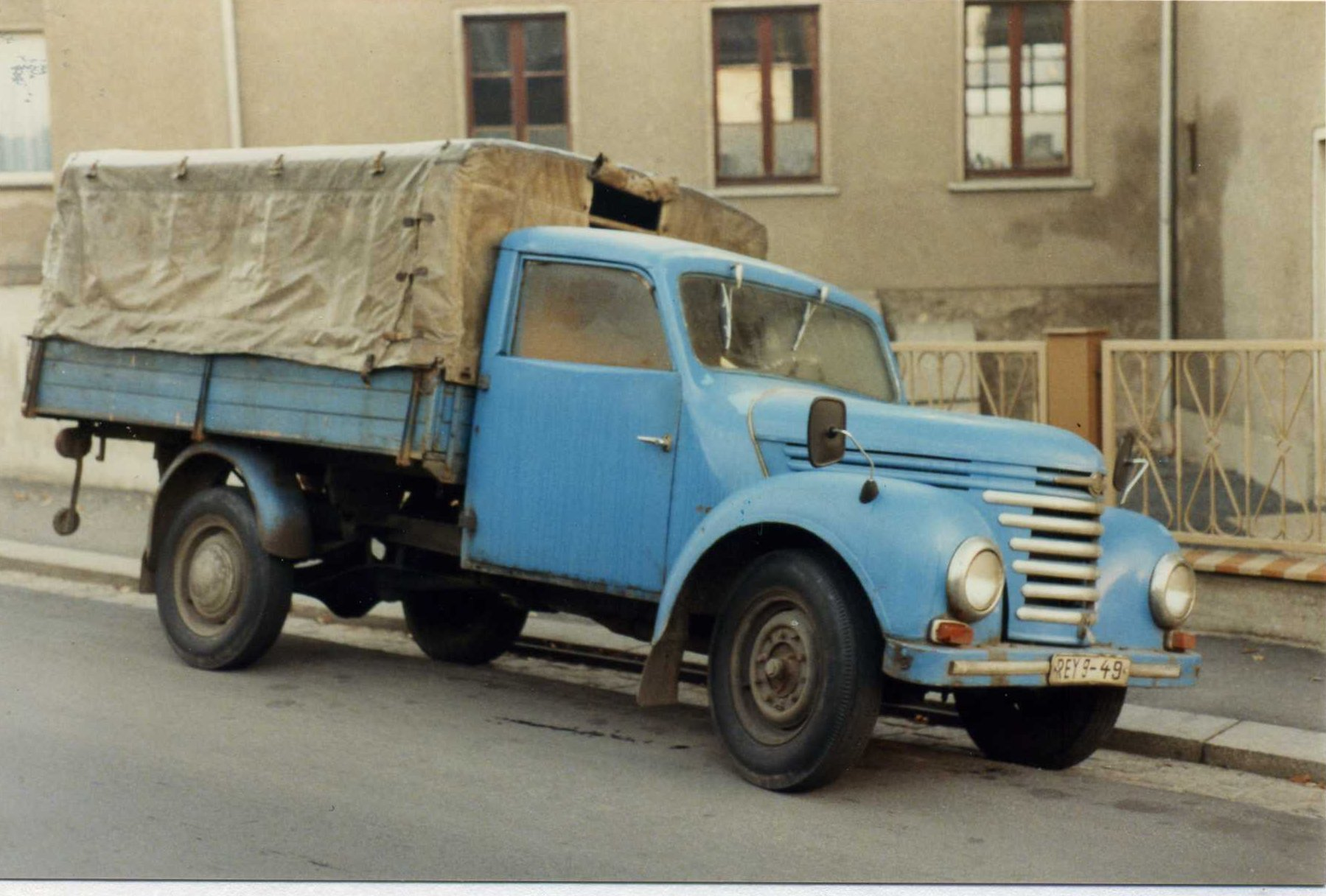 A two stroke vehicle made in Hainichen bearing a DDR Bezirk Dresden registration, R---- with a fine DDR fence behind.